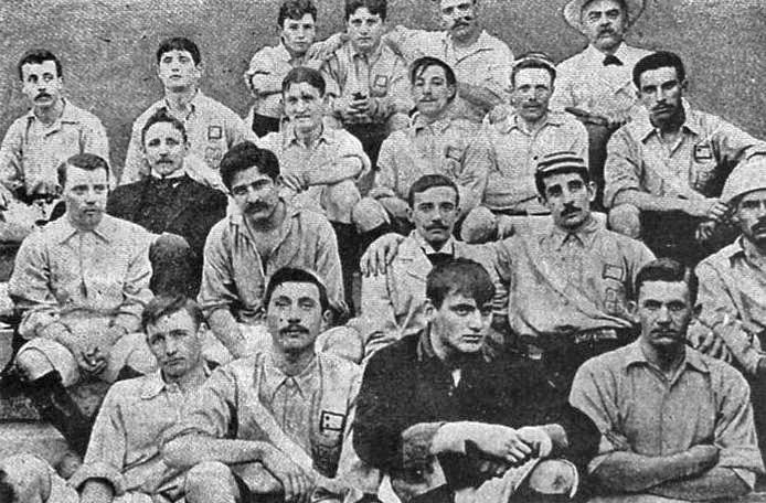 The Uruguay national football team (wearing a light blue jersey with diagonal stripe) posing with some players of the Argentine side, during the match played at Buenos Aires on September 13, 1903.